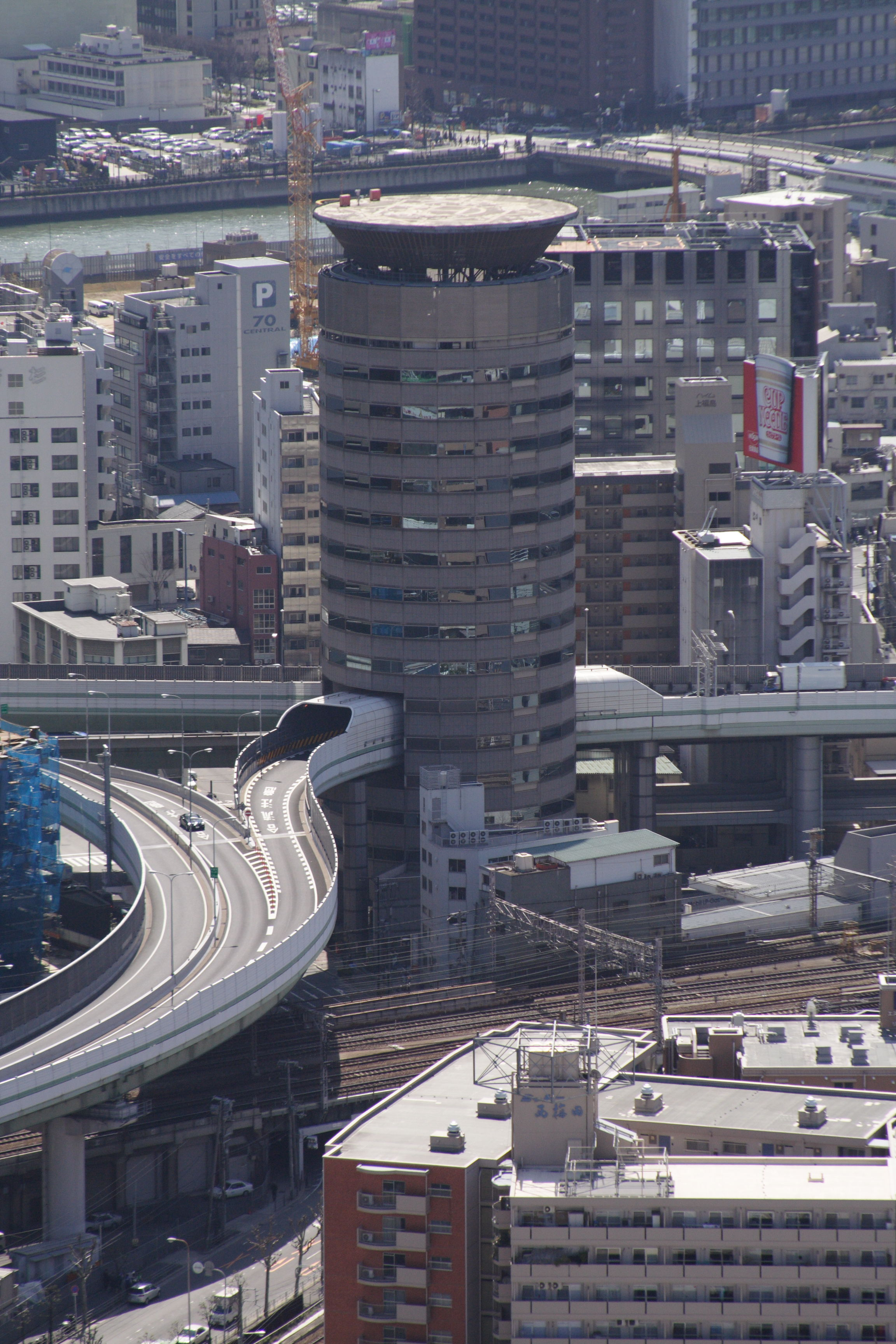 The Gate Tower Building, aka "Bee Hive" in Fukushima-ku, Osaka City, Japan. Owned by Suezawa Sangyo Co., Ltd., the building has been designed by Azusa Sekkei Co., Ltd. and built by Sato Kogyo Co., Ltd. in 1992. When the owner decided to rebuild his building, there was a plan that the exit of Hanshin expressway occupy this area. The owner did not want to sell his land to the Hanshin Expressway Company so it ended up with this road-combined building. Link to Google Maps